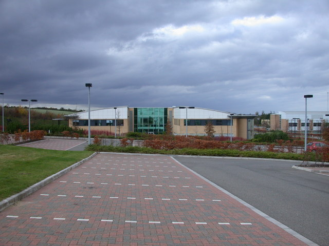 ARM Headquarters Building, Peterhouse Technology Park Built 1998-2000; Architect Barber Casanovas Ruffles